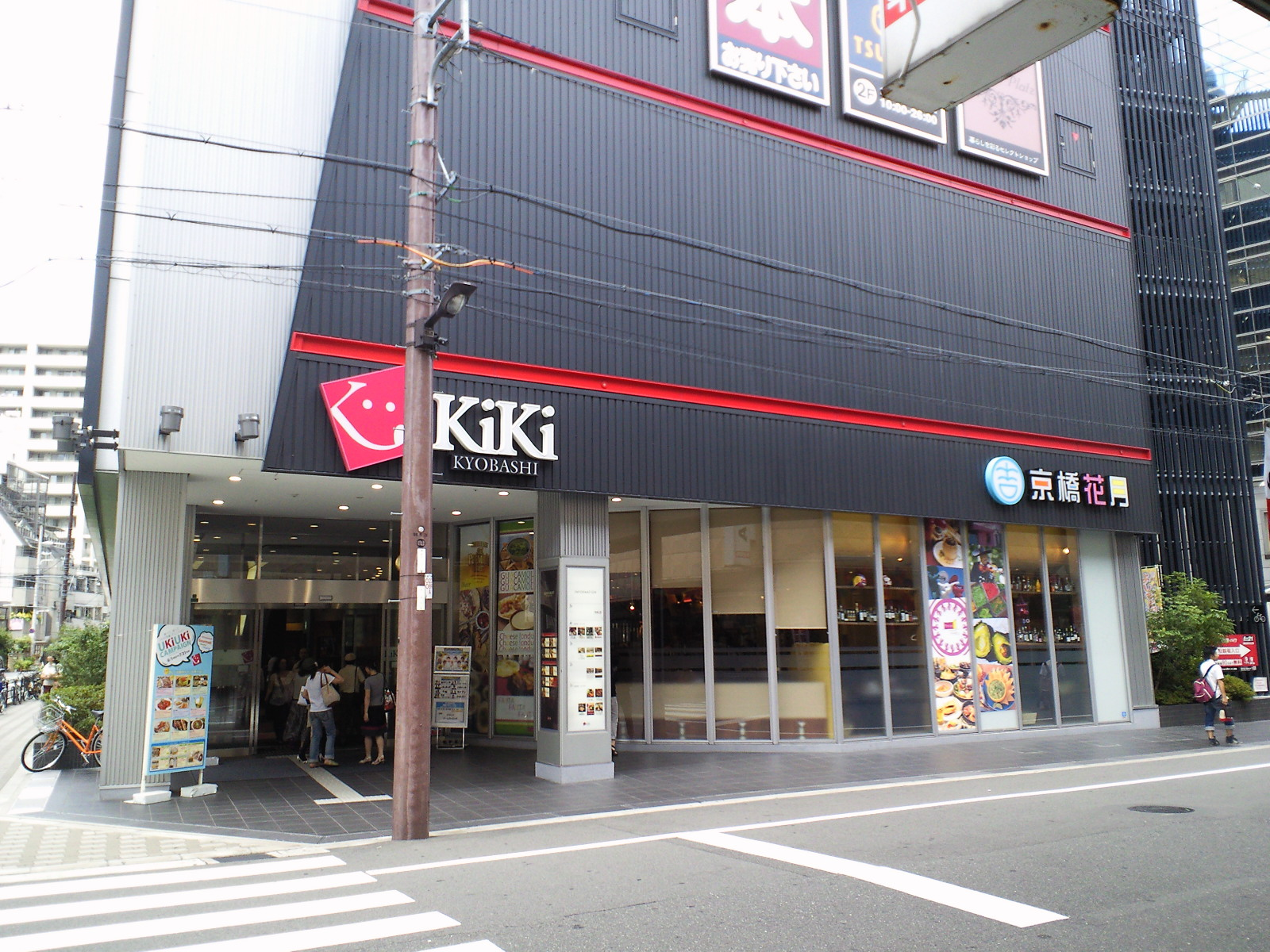 KiKi-Kyobashi, Osaka, Japan